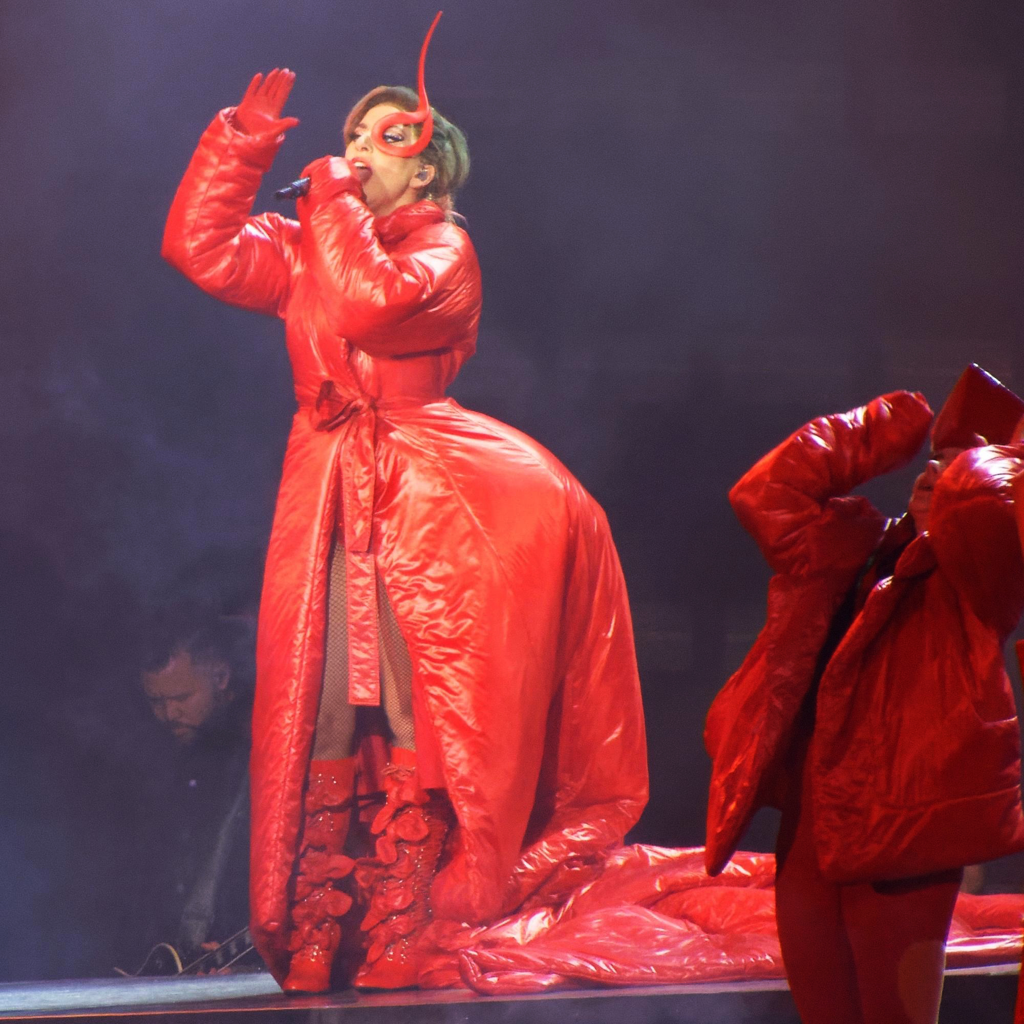 Lady Gaga performing "Bloody Mary" at Joanne World Tour in Tacoma